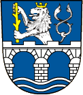 Municipal coat of arms of Bohušovice nad Ohří town, Litoměřice District, Czech Republic.